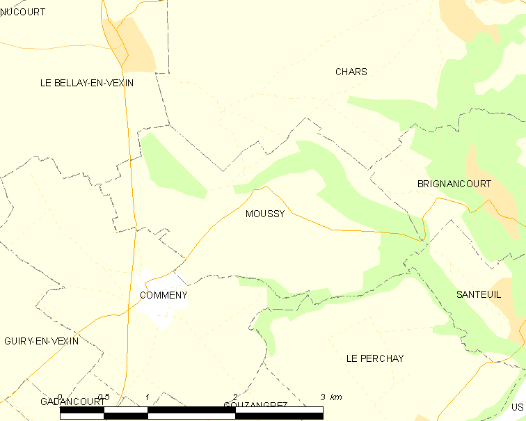 Map of French municipality Moussy